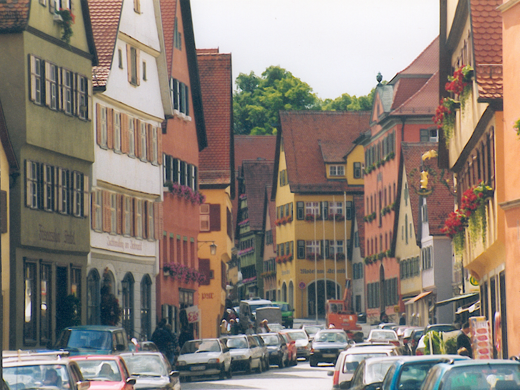 Street in the Old Town of Dinkelsbühl